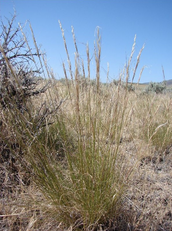 Achnatherum thurberianum by Sheri Hagwood. Bureau of Land Management. United States, ID, Bureau of Land Management Jarbidge Resource Area. June 21, 2007